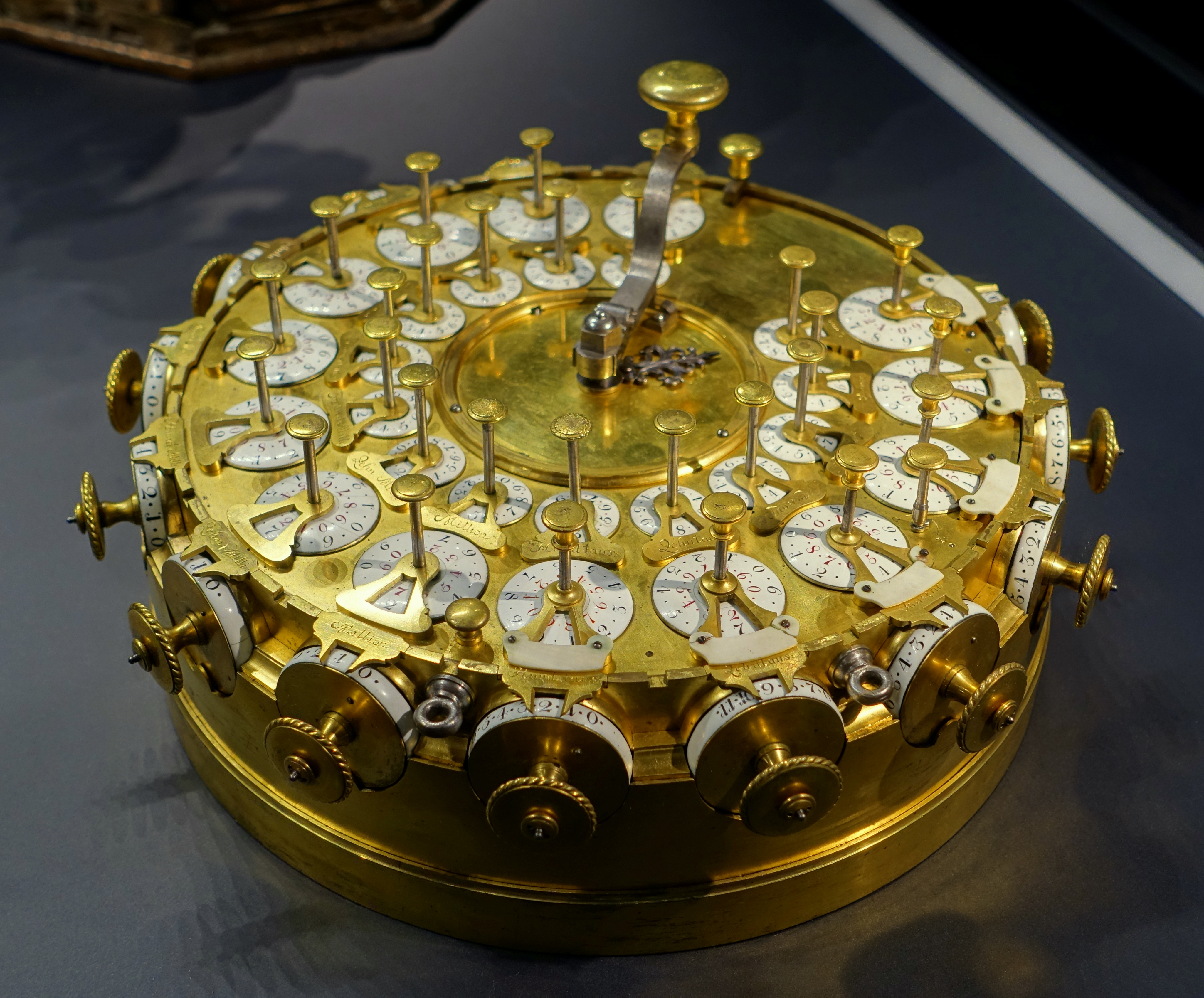 Exhibit in the Hessisches Landesmuseum Darmstadt - Darmstadt, Germany.